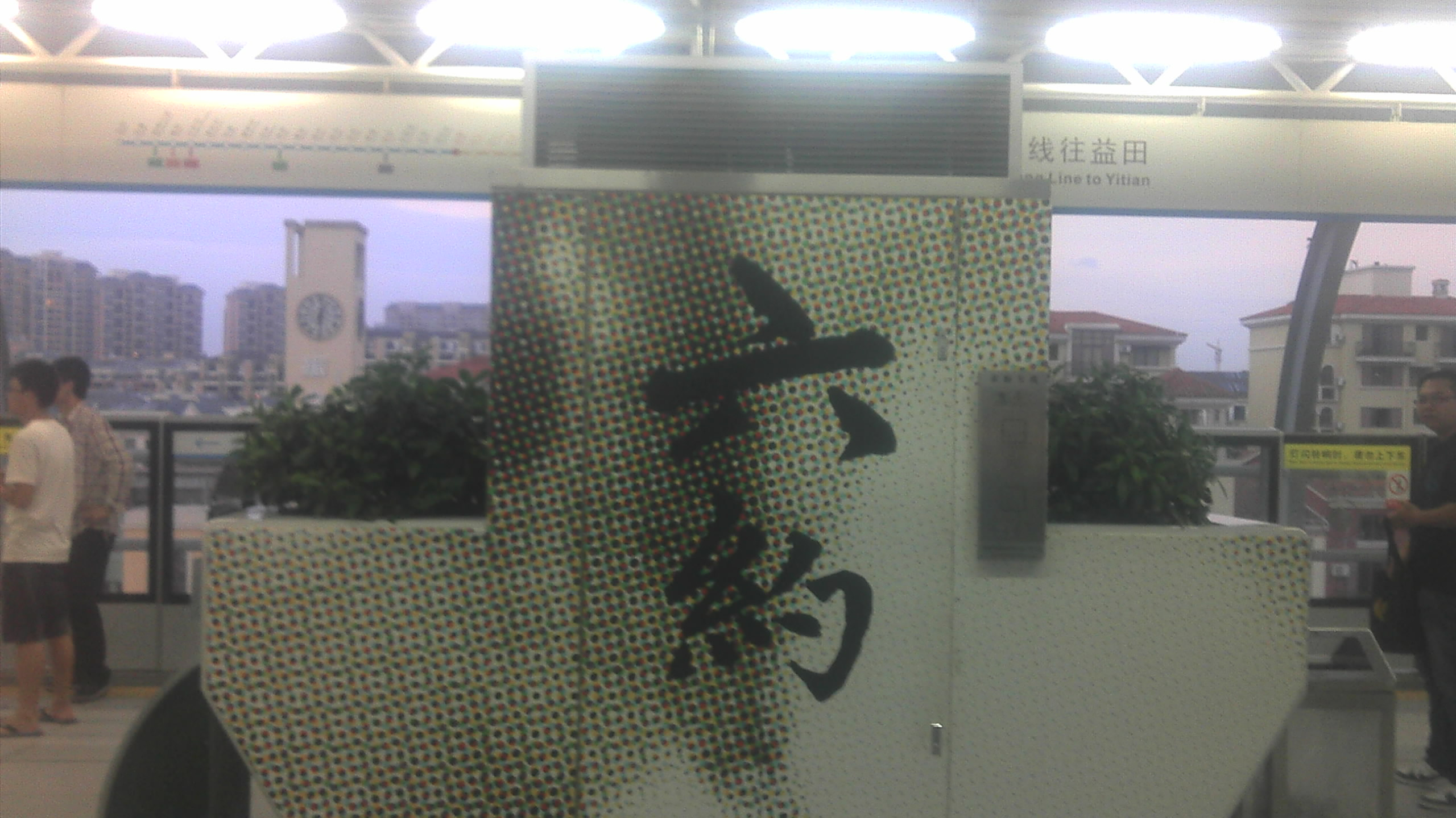 This photo was taken as Oct 14, 2011.